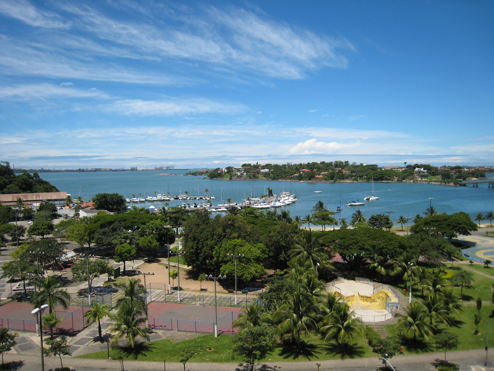 The beaches of Vitória, Brazil